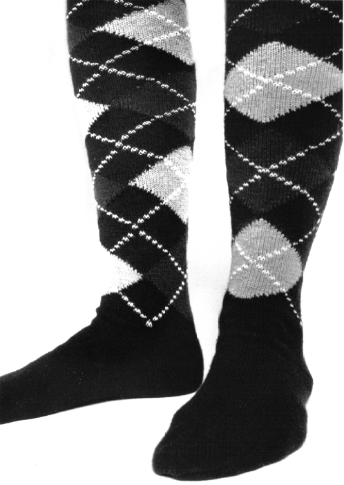 b/w photograph of argyle socks.